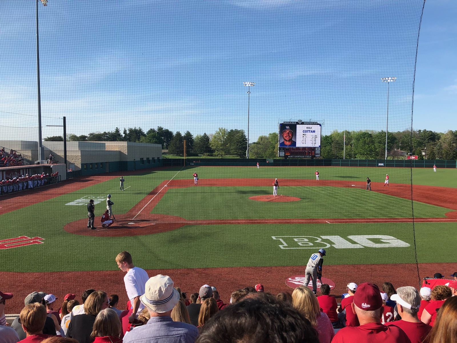 Bart Kaufman - Left Field (2018) - New video scoreboard